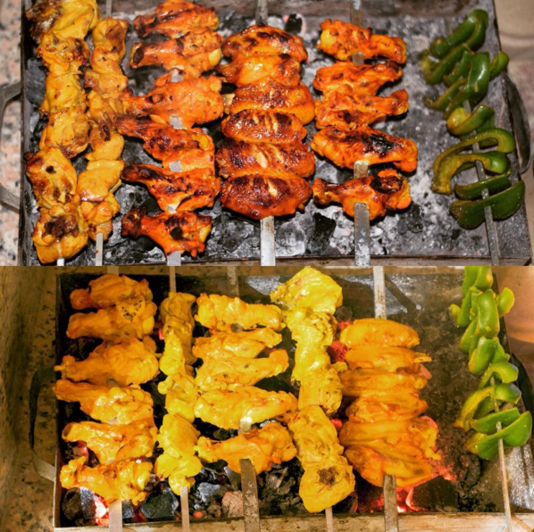 Jouje Kabab mean Grilled chicken, picture at the bottom is before grilling and at the top of picture it is ready to eat!